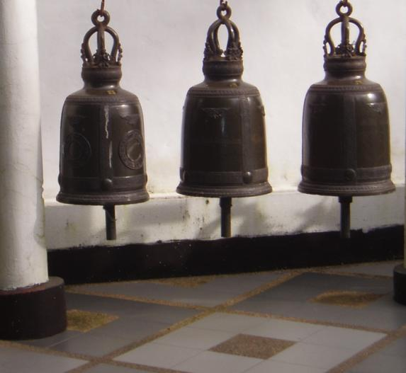 Bells at Wat Doi Suthep.